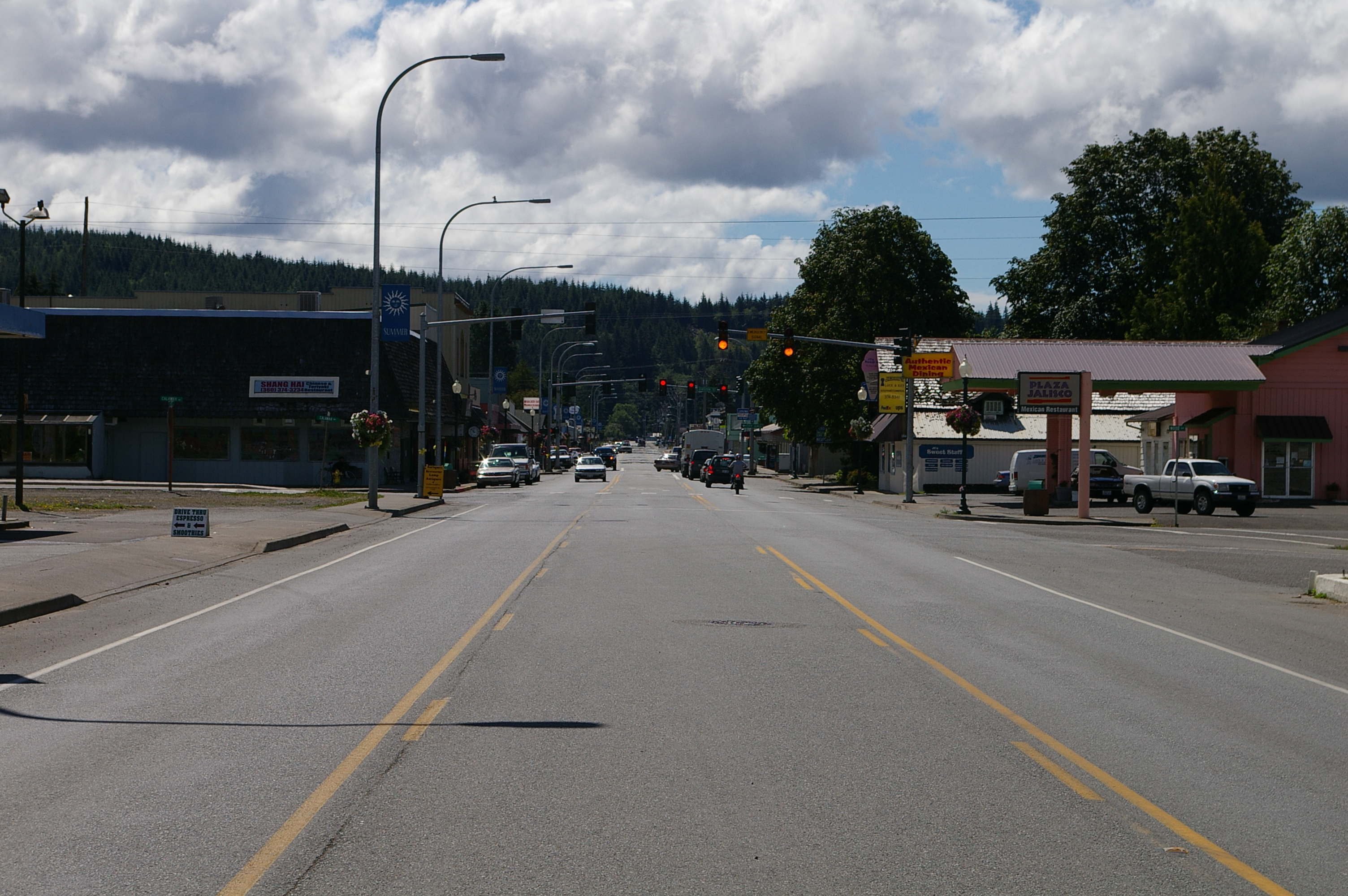 Forks WA Downtown